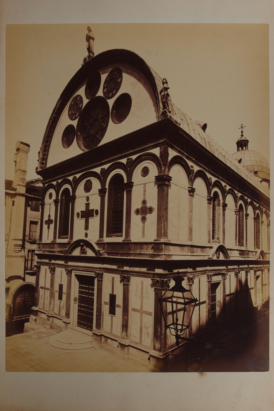 View of Venice, 1850s